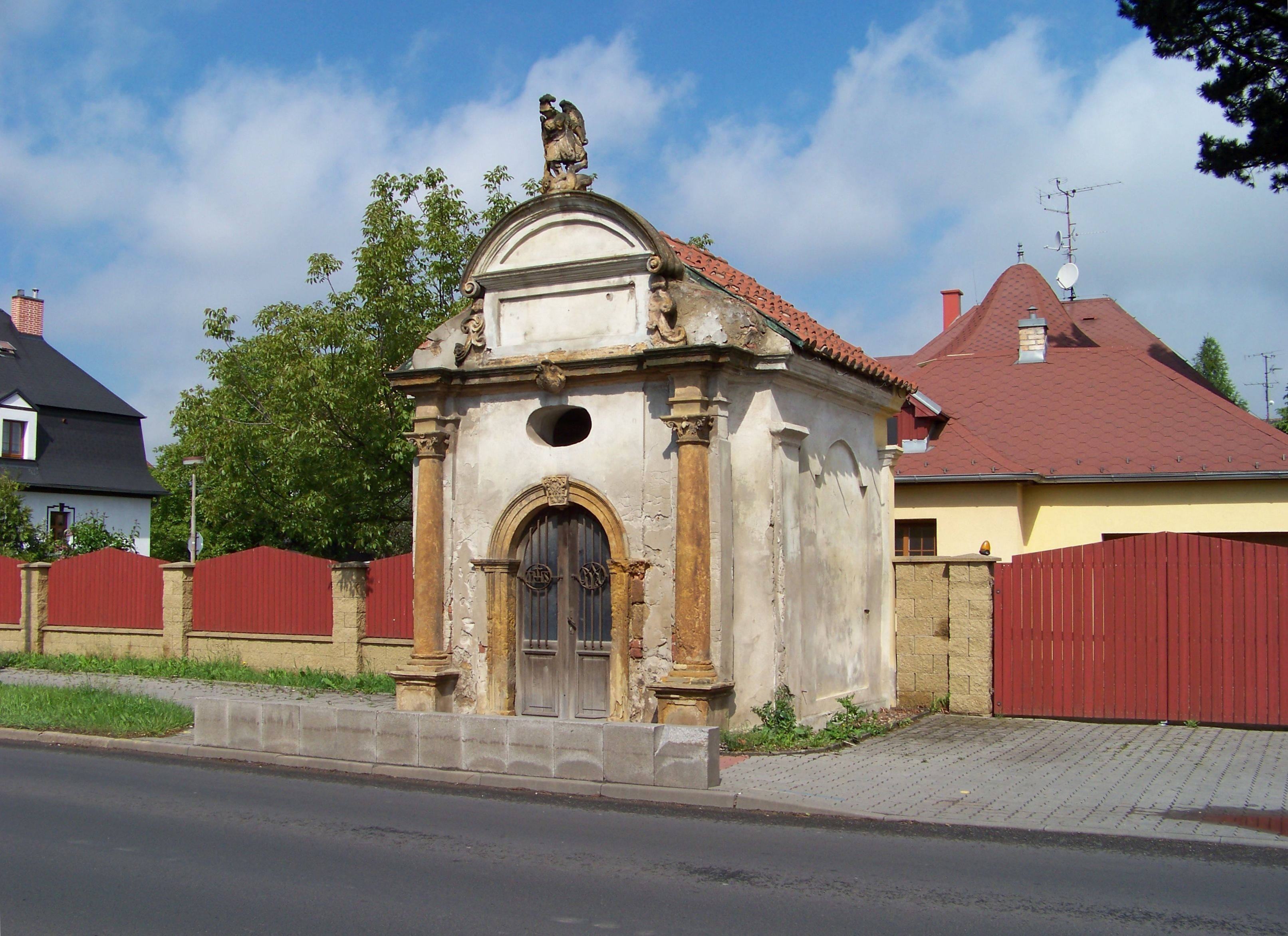 Chomutov, Chomutov District, Ústí nad Labem Region, Czech Republic. Mostecká, Vinohrady Chapel.